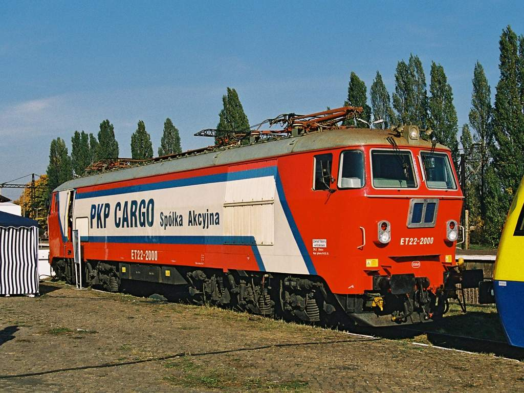 ET22-2000 PKP Cargo; TRAKO trade fair, Gdańsk, Poland